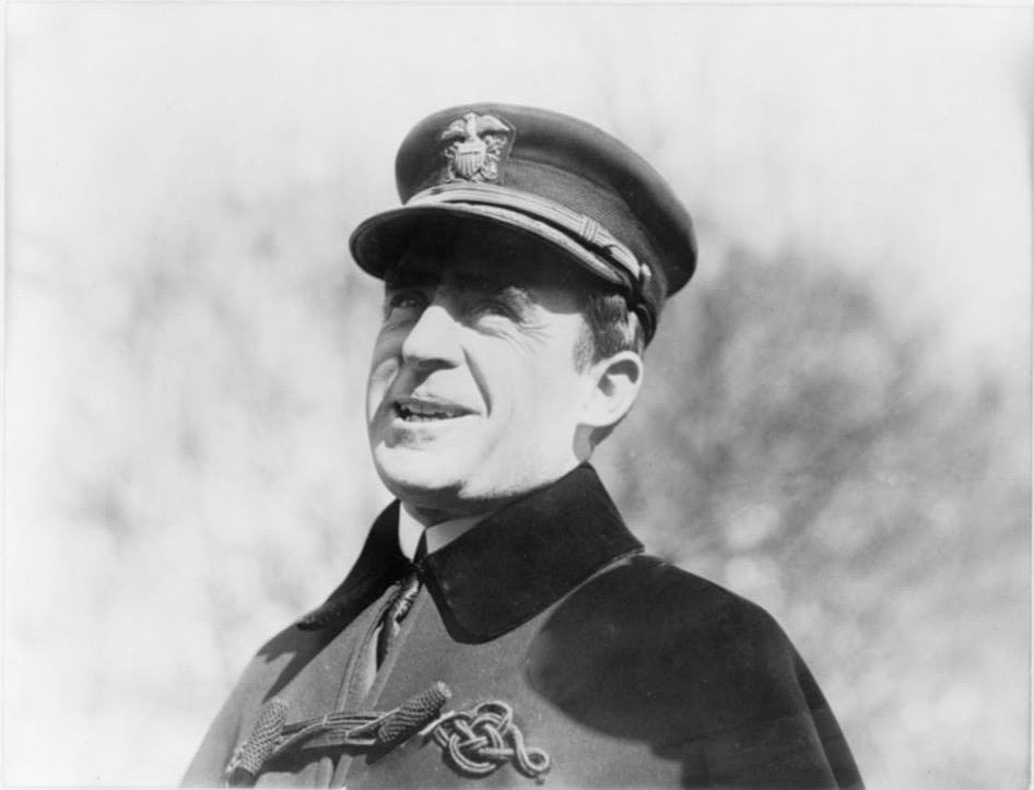 Cary Travers Grayson (1878-1938); Rear admiral of the US Navy, personal physician of US-President Woodrow Wilson, Chairman of the American Red Cross (1935-1938)